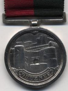 From an example in my collection